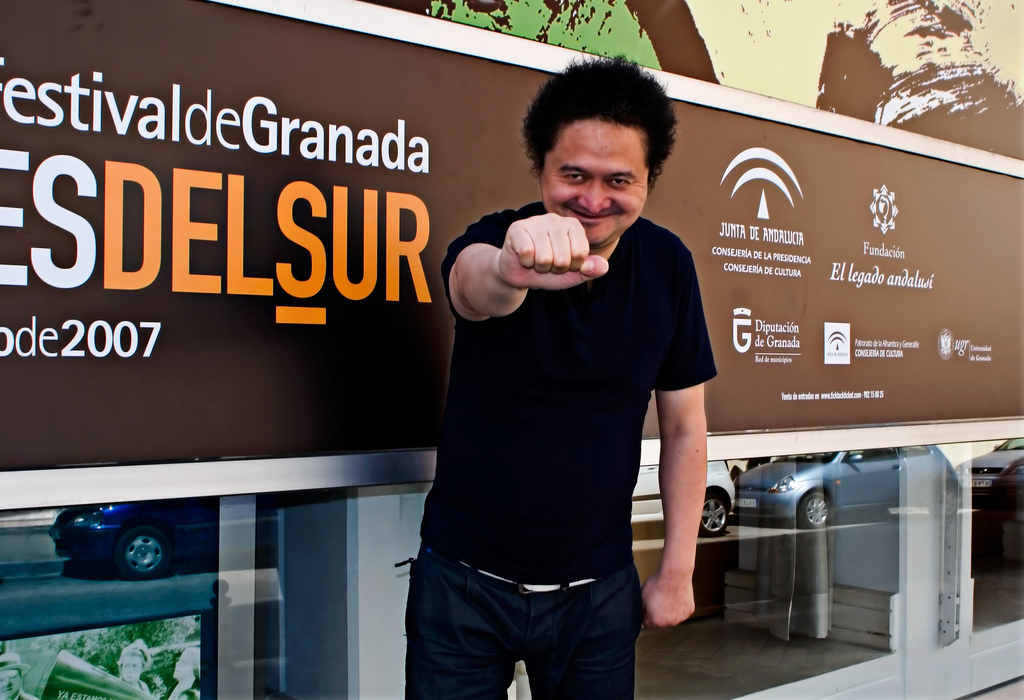 The chinese fimmaker Zhan Yuang during the presentation of his film "Seventeen Years", scheduled within the retrospective China 21st Century